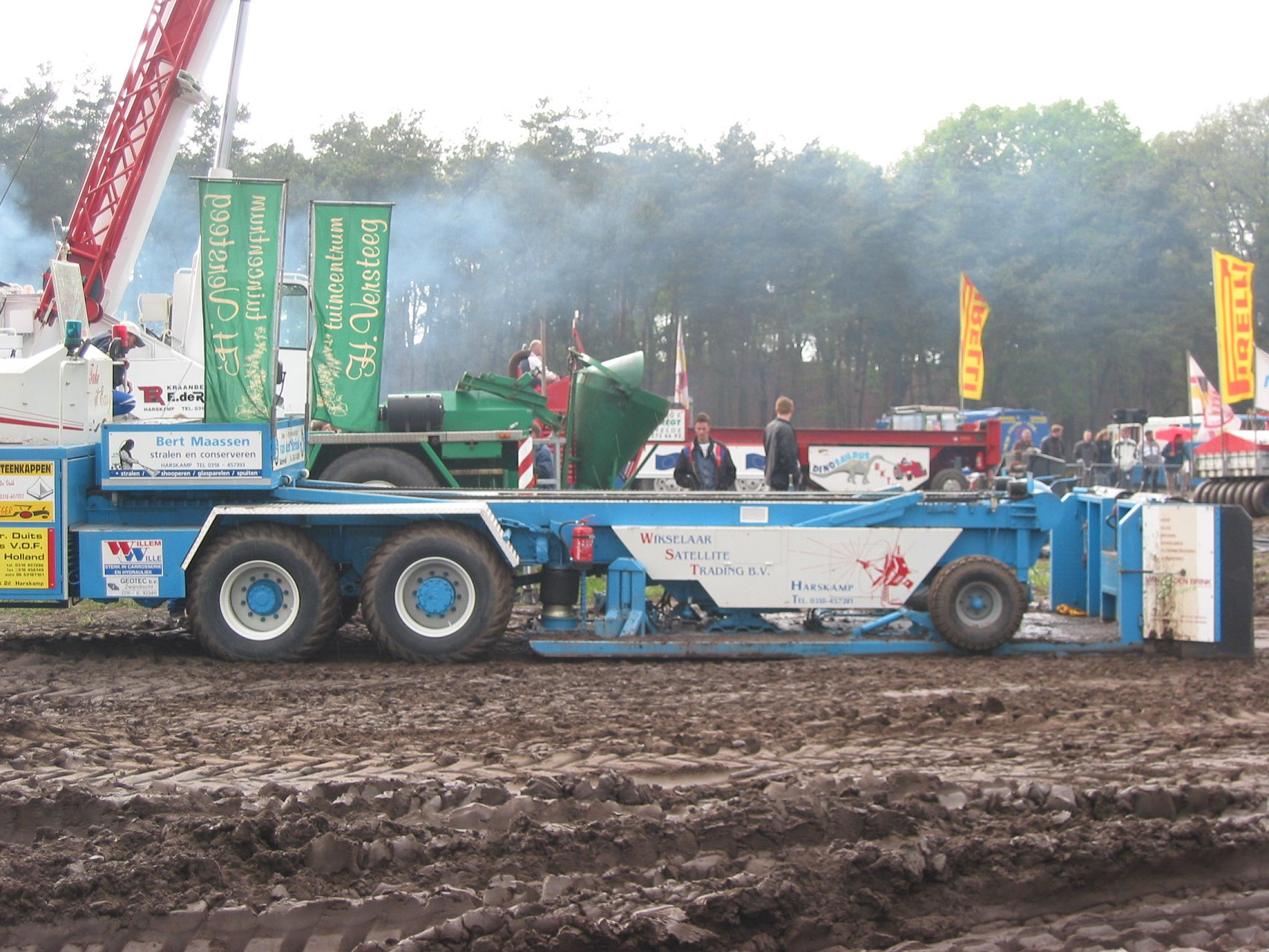 sledge Tractor Pulling